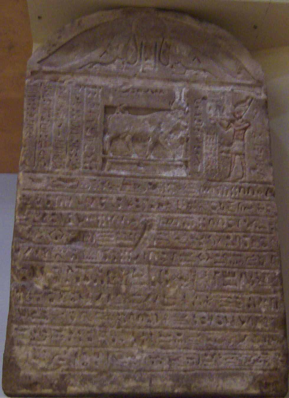 A stele commemorating the death and burial of a Buchis during Tiberius' reign.